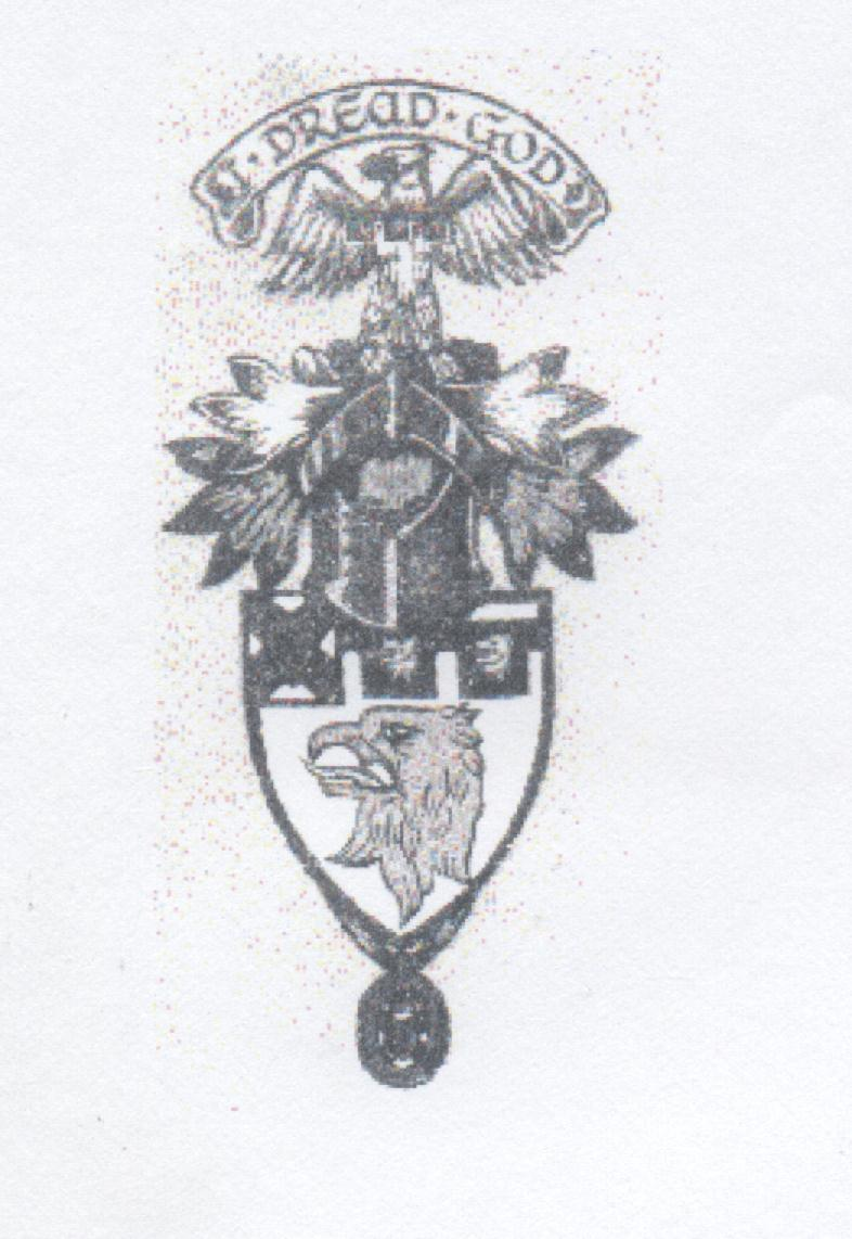 Registered coat of arms of the Munro of Foulis-Obsdale family